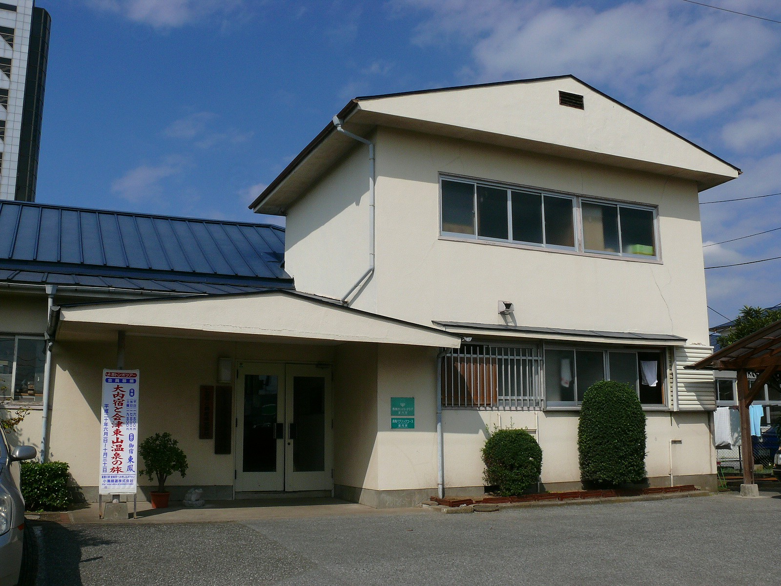 Kominato Railway Headquarters（Ichihara city,Chiba,Japan）.